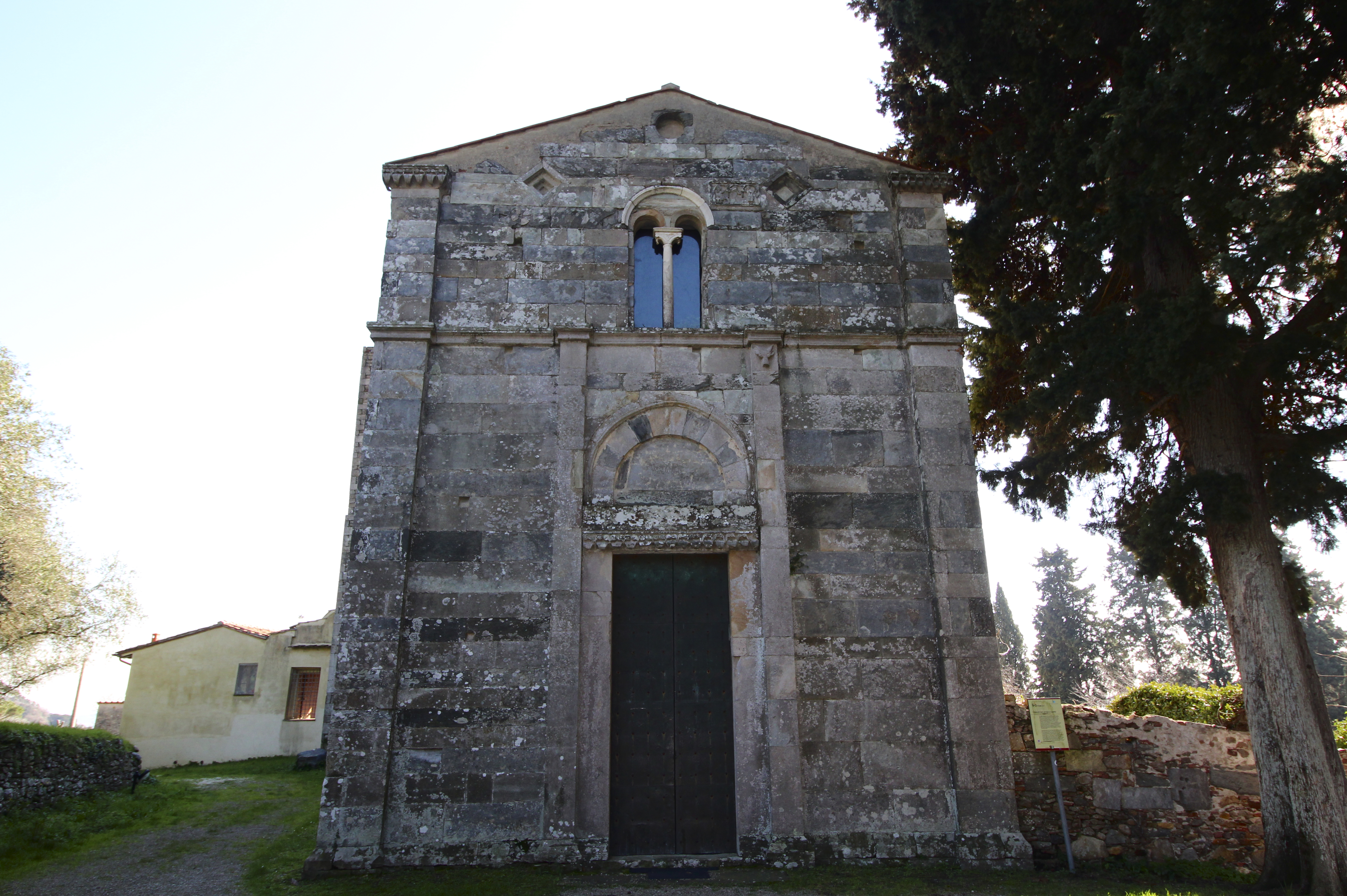 Church San Jacopo a Lupeta, Vicopisano, Province of Pisa, Tuscany, Italy